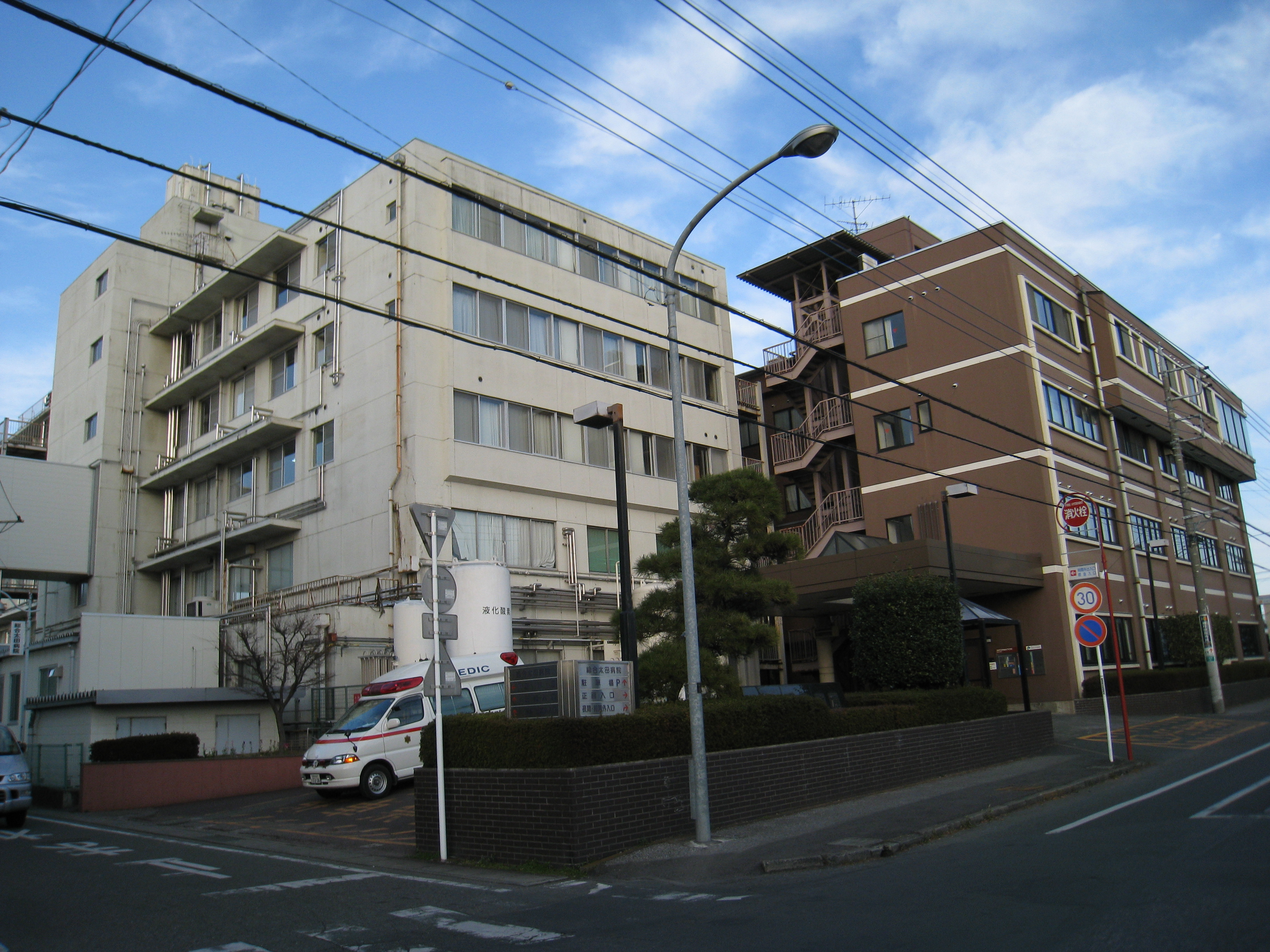 Fuji Heavy Industries Health Insurance Sociaty Ota Hospital